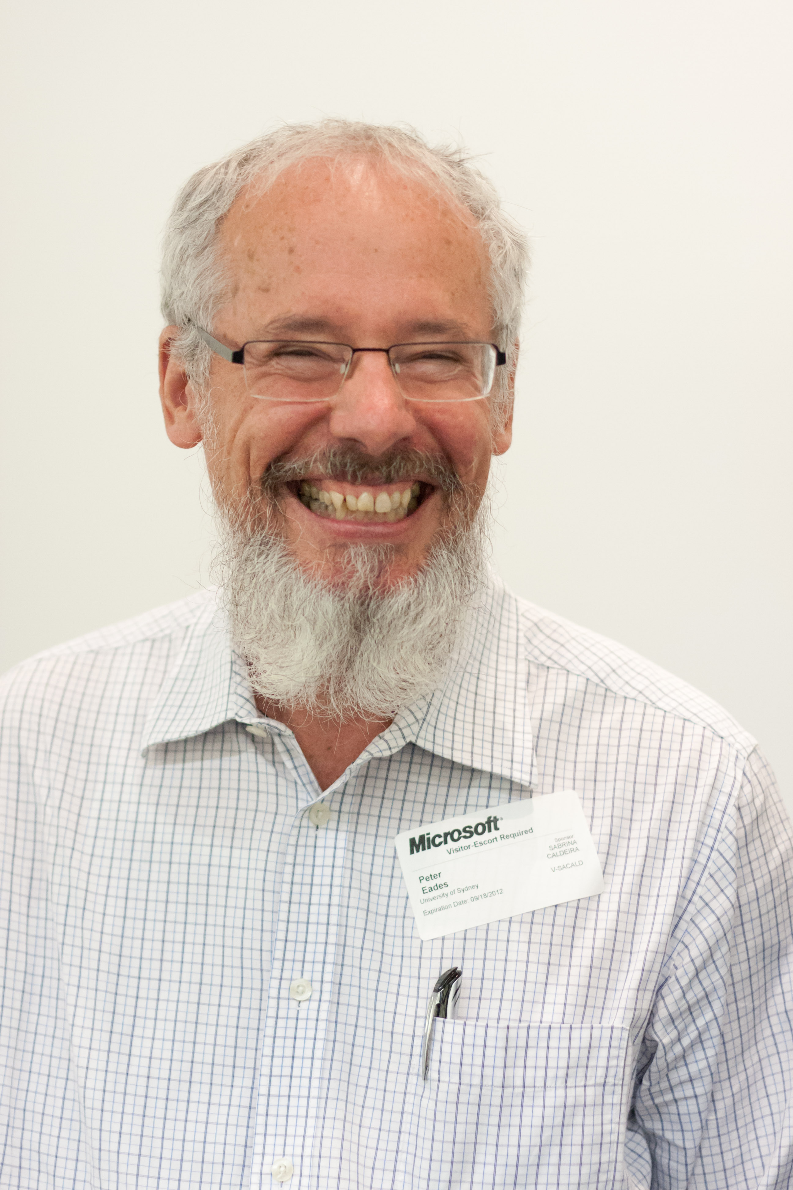 Peter Eades at the Workshop on Theory and Practice of Graph Drawing, Redmond, Washington, September 18, 2012